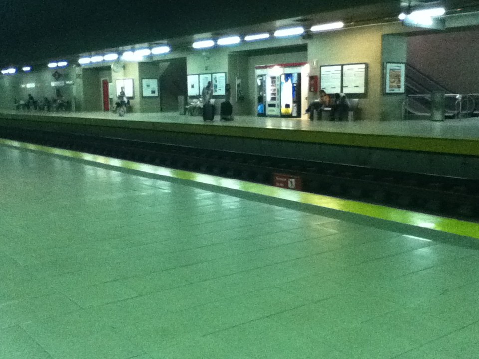 Saint bernard